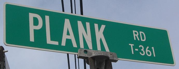 Plank Road sign in Piatt Township, Lycoming County, Pennsylvania, USA. Road is 1 km (0.6 mi) long and runs parallel to PA Route 87, following the course of the former Larrys Creek Plank Road here.